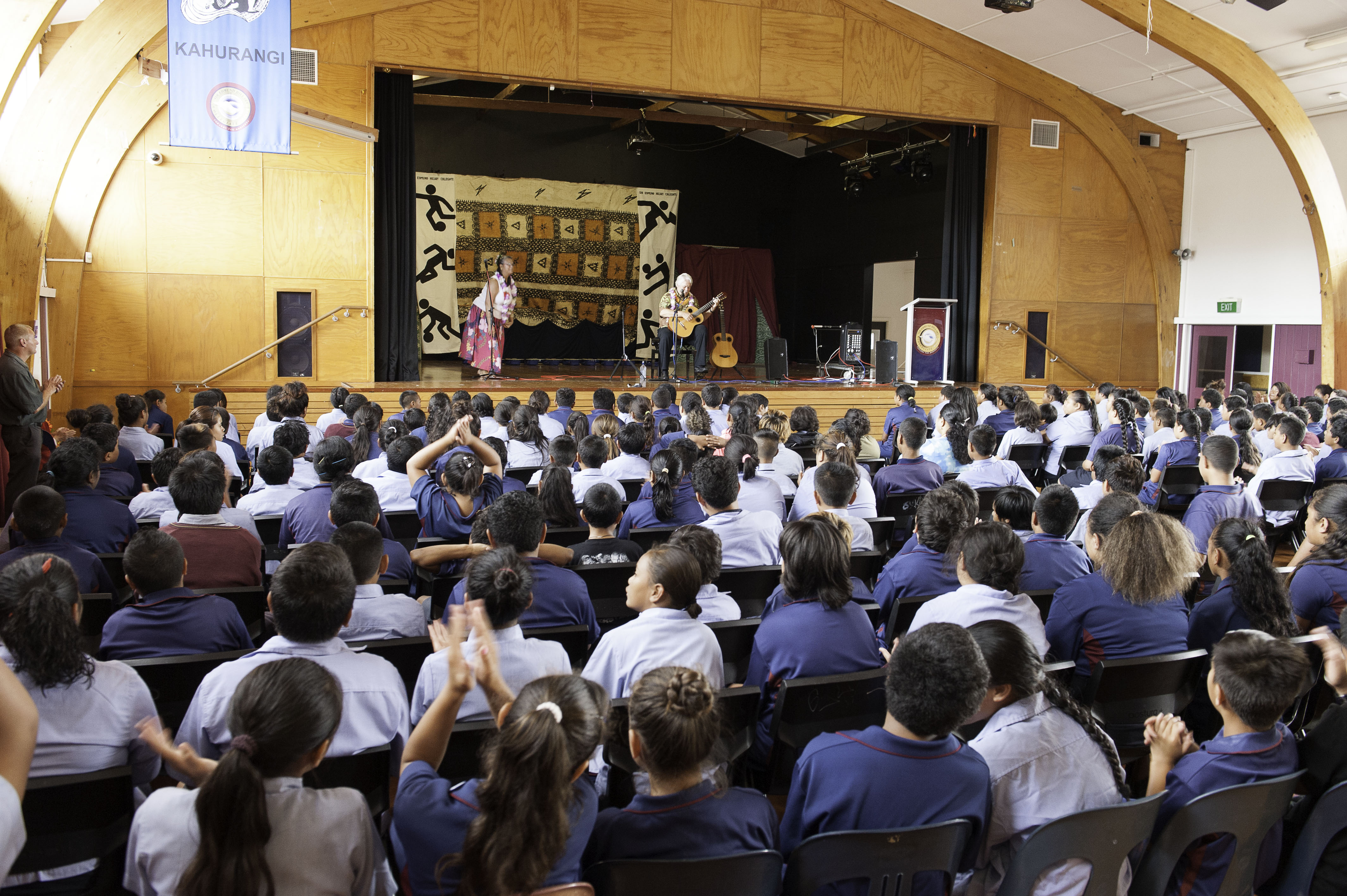 Keola and Moana Beamer - Workshop at SEHC